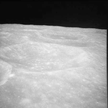 Oblique view of Jenkins (center), facing west with Nobili crater in background, on the moon.